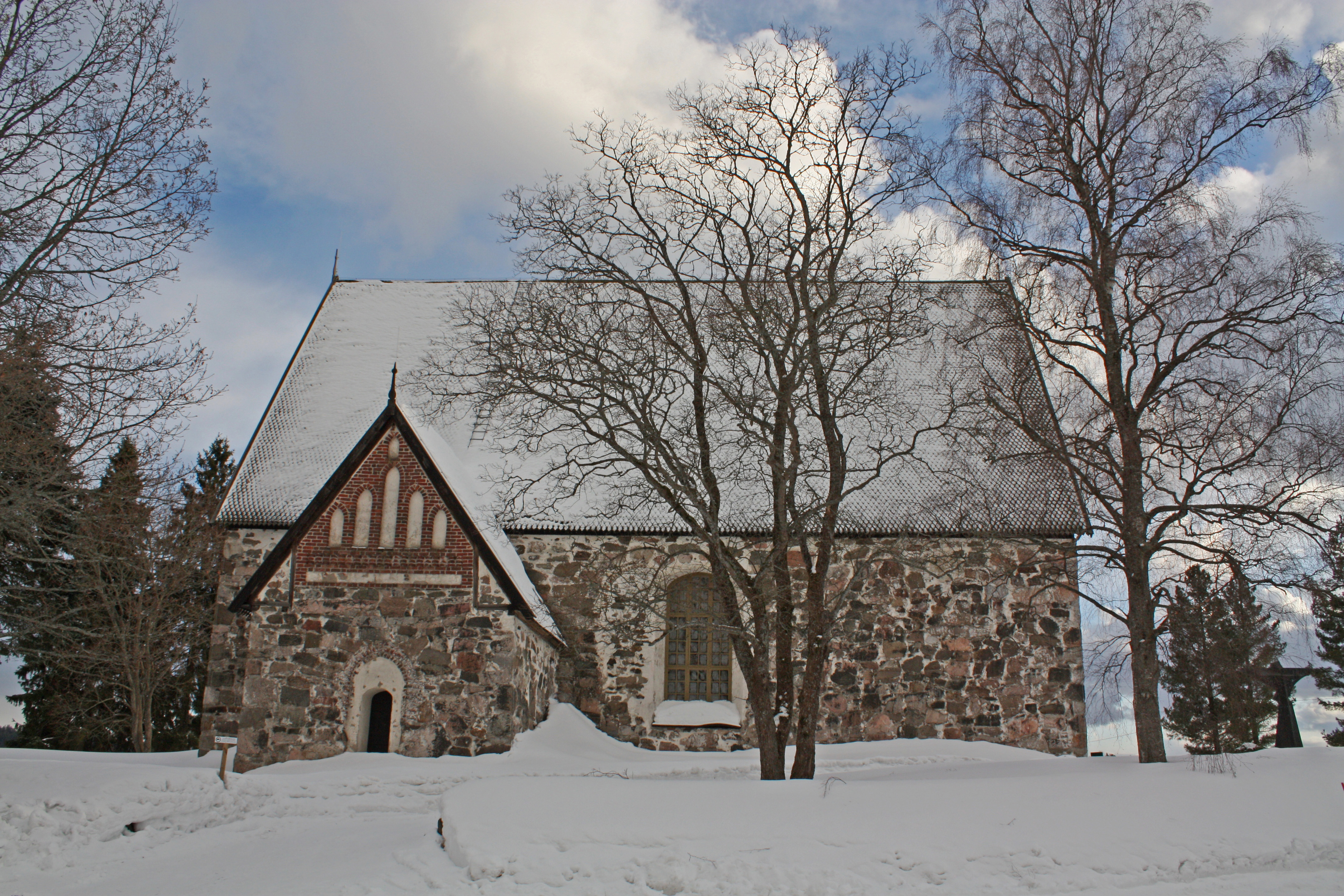 Sipoo Old Church, St. Sigfrid's Church in winter